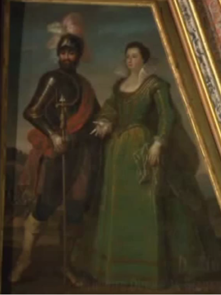 Afonso I, Duke of Braganza, and his wife, D. Brites de Alvim.